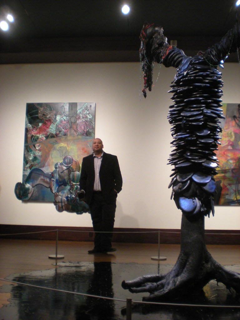 Eiteljorg Museum Gallery talk for the Eiteljorg Fellowship for Native American Fine Art, 2009 In the foreground is his work Mythmaker (2009) and in the background, behind him, is Second Nature (2006)